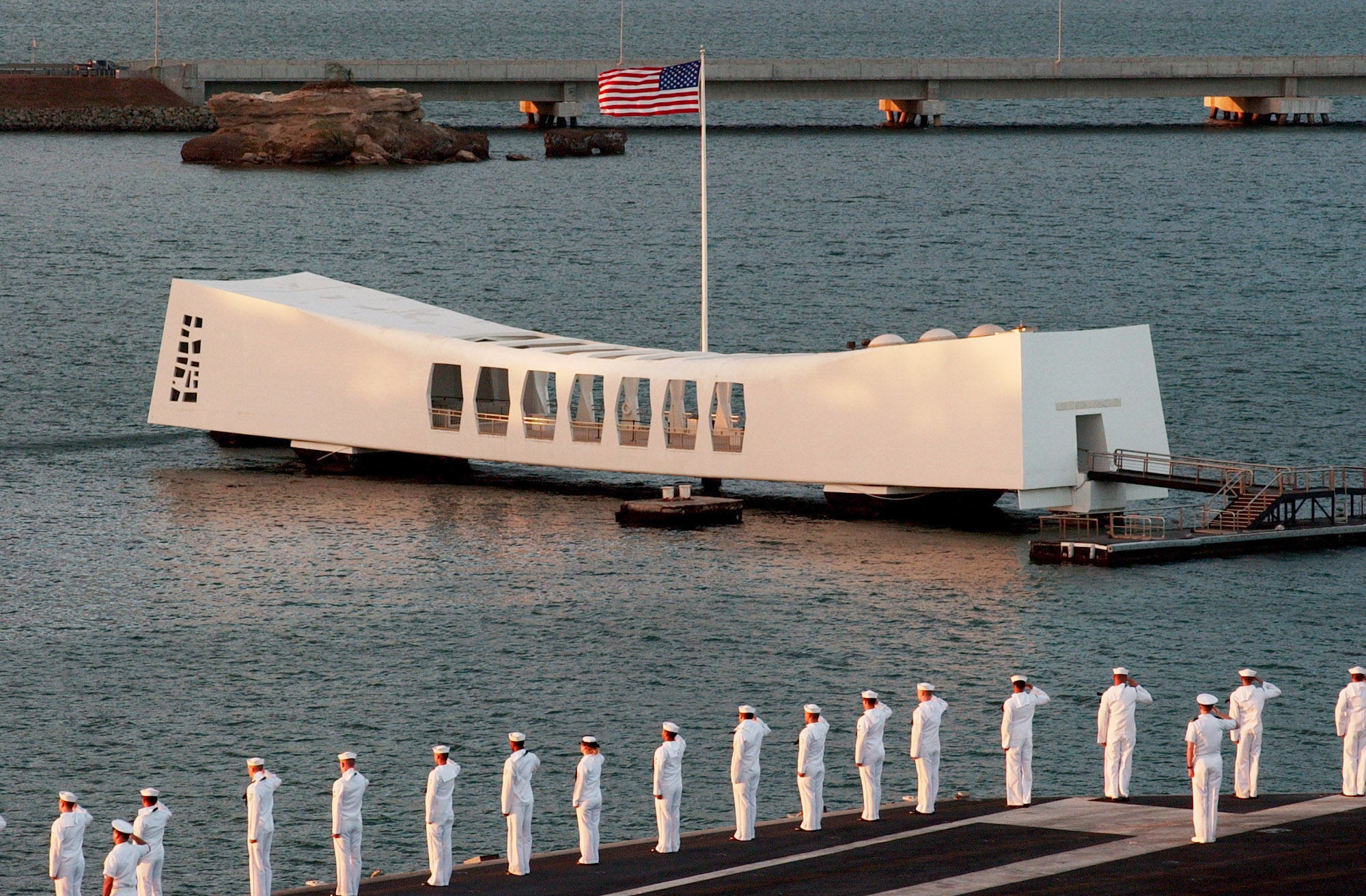 PEARL HARBOR, Hawaii (April 9, 2007) - Sailors manning the rails render honors as they pass the USS Arizona Memorial while entering Pearl Harbor aboard USS Ronald Reagan (CVN 76). Reagan pulled into Pearl Harbor for a scheduled port visit to the Aloha State. Ronald Reagan Carrier Strike Group is currently completing a surge deployment in support of operations in the western Pacific. U.S. Navy photo by Mass Communication Specialist Seaman Joe Painter (RELEASED)